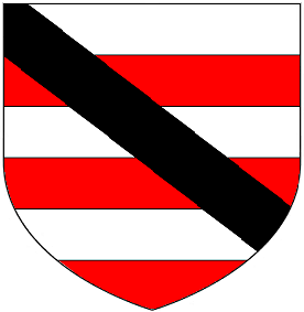 Arms of Foliot of Tamerton Foliot, Devon: Barry argent and gules, a bend sable (Pole, Sir William (d.1635), Collections Towards a Description of the County of Devon, Sir John-William de la Pole (ed.), London, 1791, p.483: "Folliot of Warlegh: Barrule argent and gules, a bend sable")